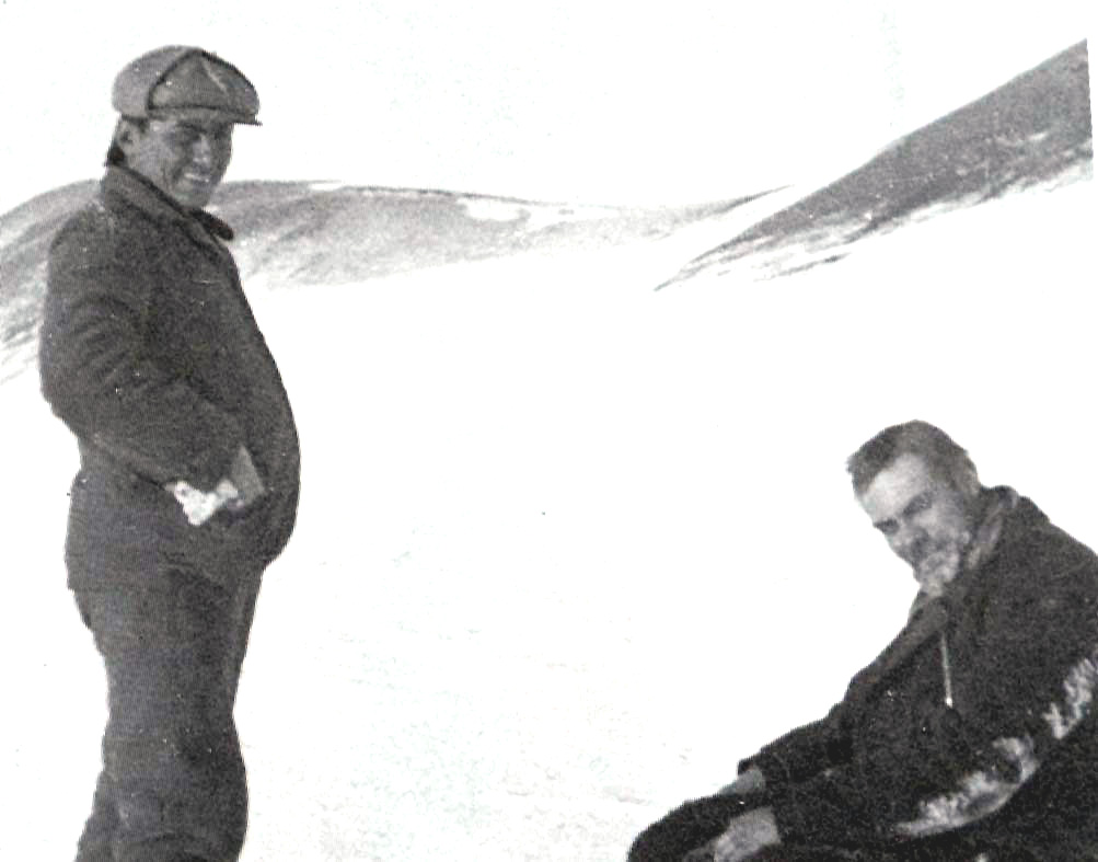 Photograph of Sobral and Nordenskjöld